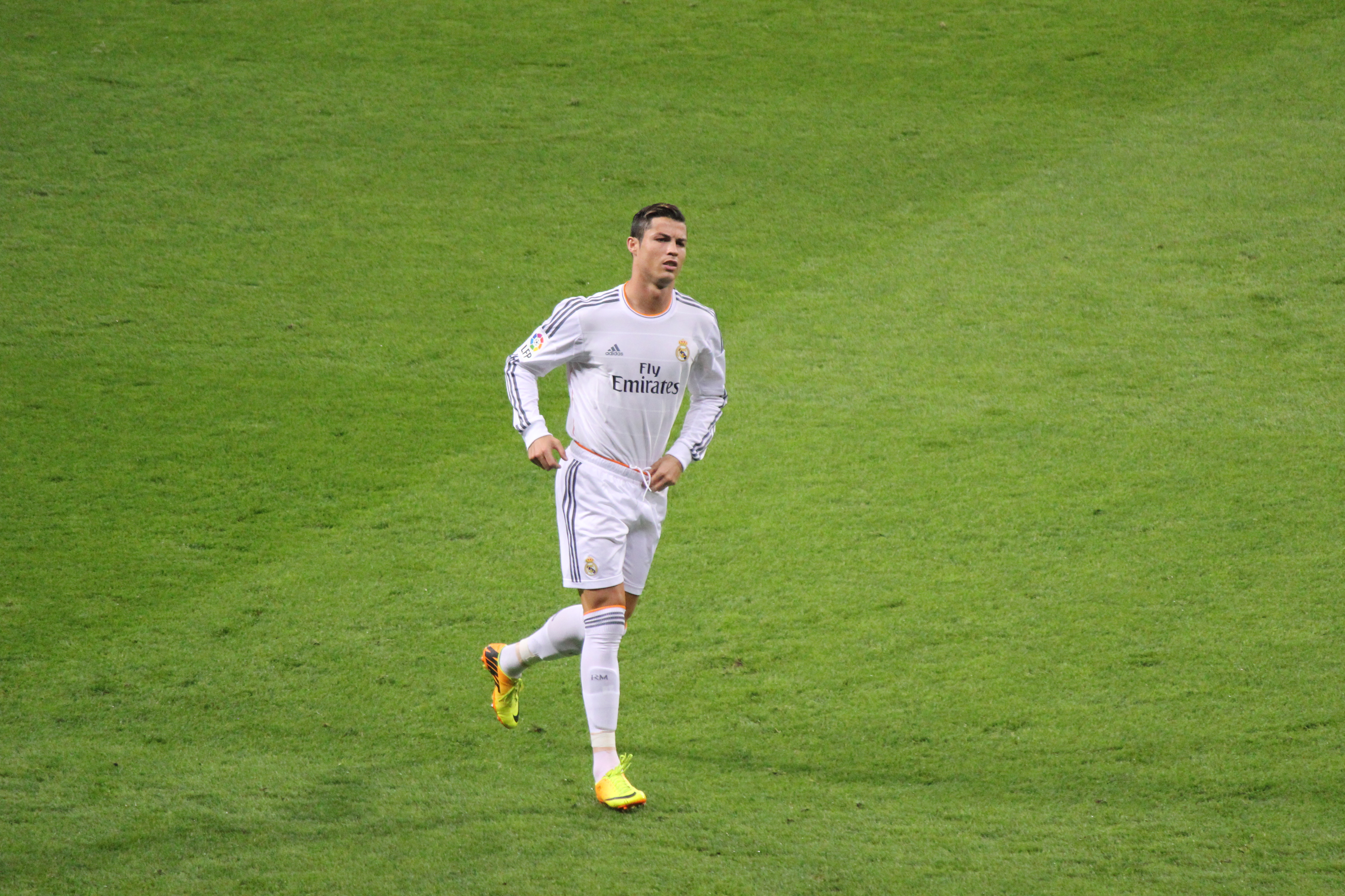 Picture from 28 Septemeber game between Real Madrid and Atlético Madrid.